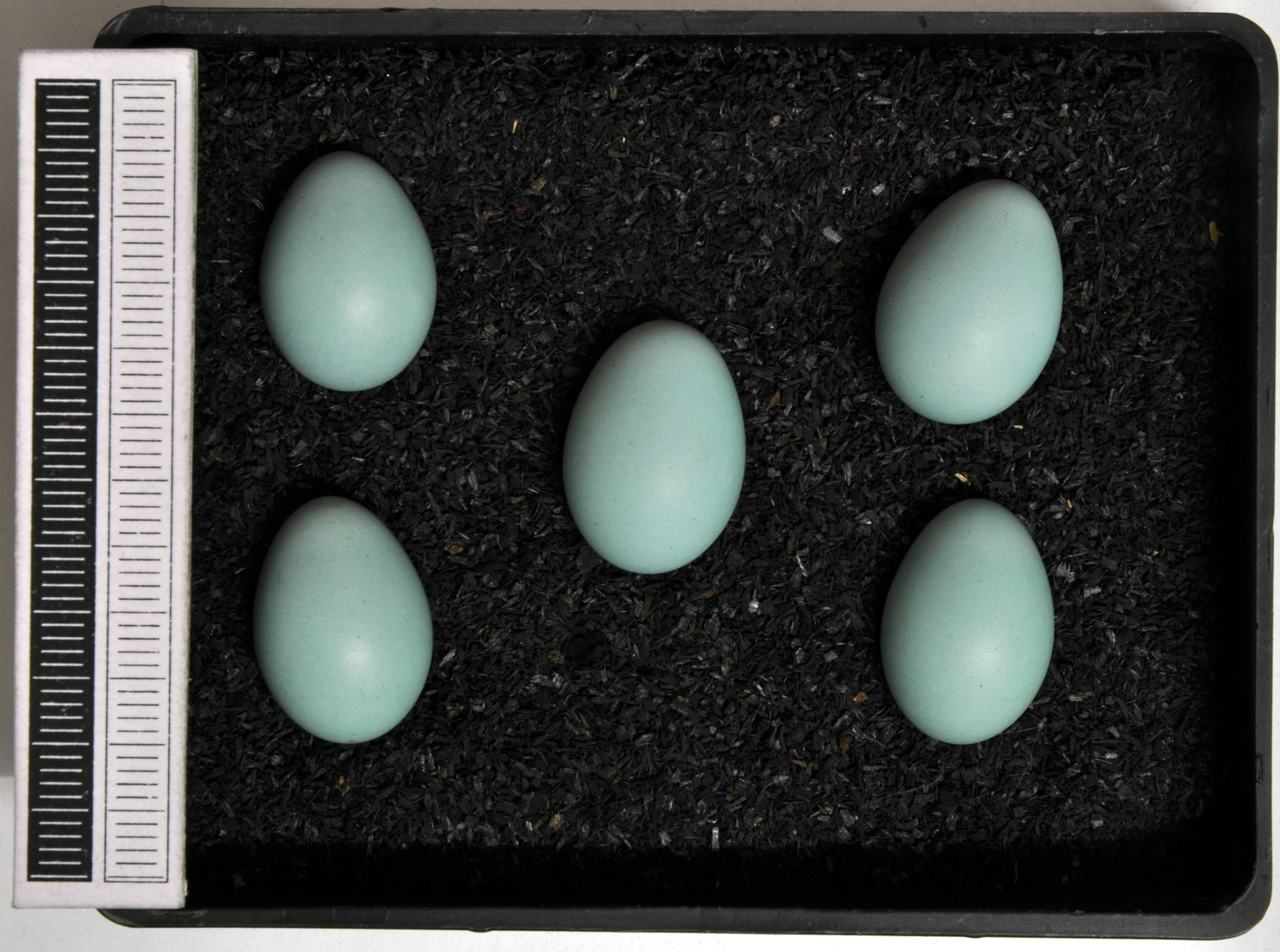 Dunnock Prunella modularis, egg, Coll. Museum Wiesbaden, Origin: Aßling, Bavaria, 06.05.1972, leg. W. Abelmann